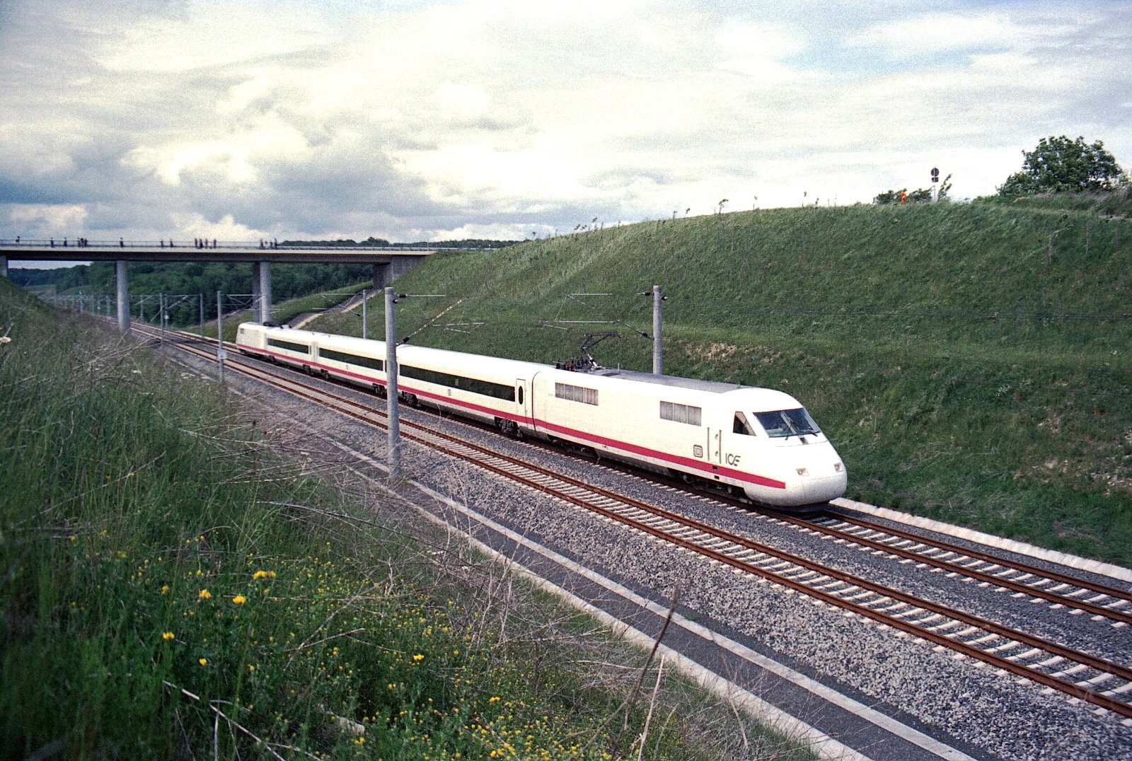 The ICE predecessor InterCityExperimental en route from Fulda to Würzburg (at pk 312).